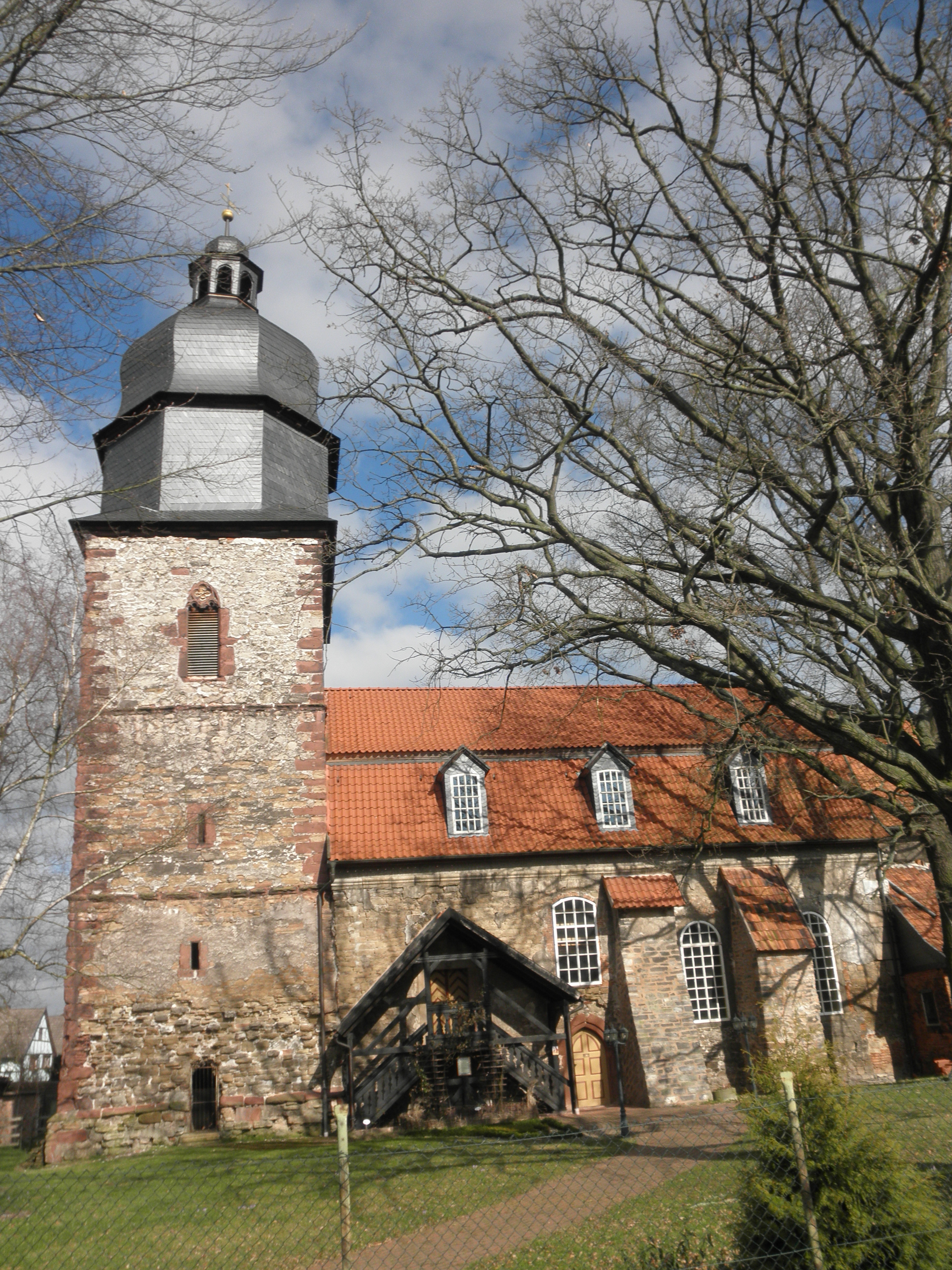 Church in Bielen (Nordhausen) in Thuringia